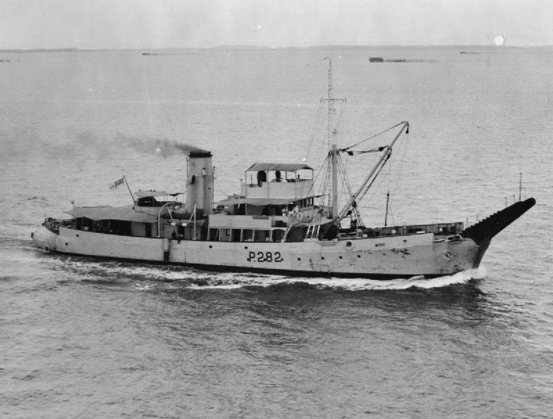 HMS Barfoam Underway off Singapore.